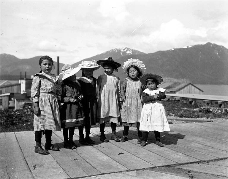 From John Cobb field notebook: Sic Indian children, Metlakahtla. June 4, 1904 Subjects (LCSH): Tsimshian Indians--Children--Alaska--Metlakatla; Indian children--Alaska--Metlakatla; Children--Alaska--Metlakatla; Girls--Alaska--Metlakatla; Girls--Clothing and dress--Alaska--Metlakatla